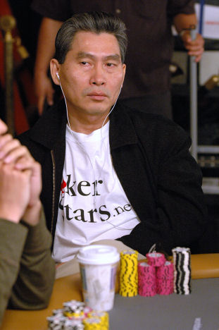 Tony Ma in WSOP2006 2006 World Series of Poker - Rio Las Vegas.